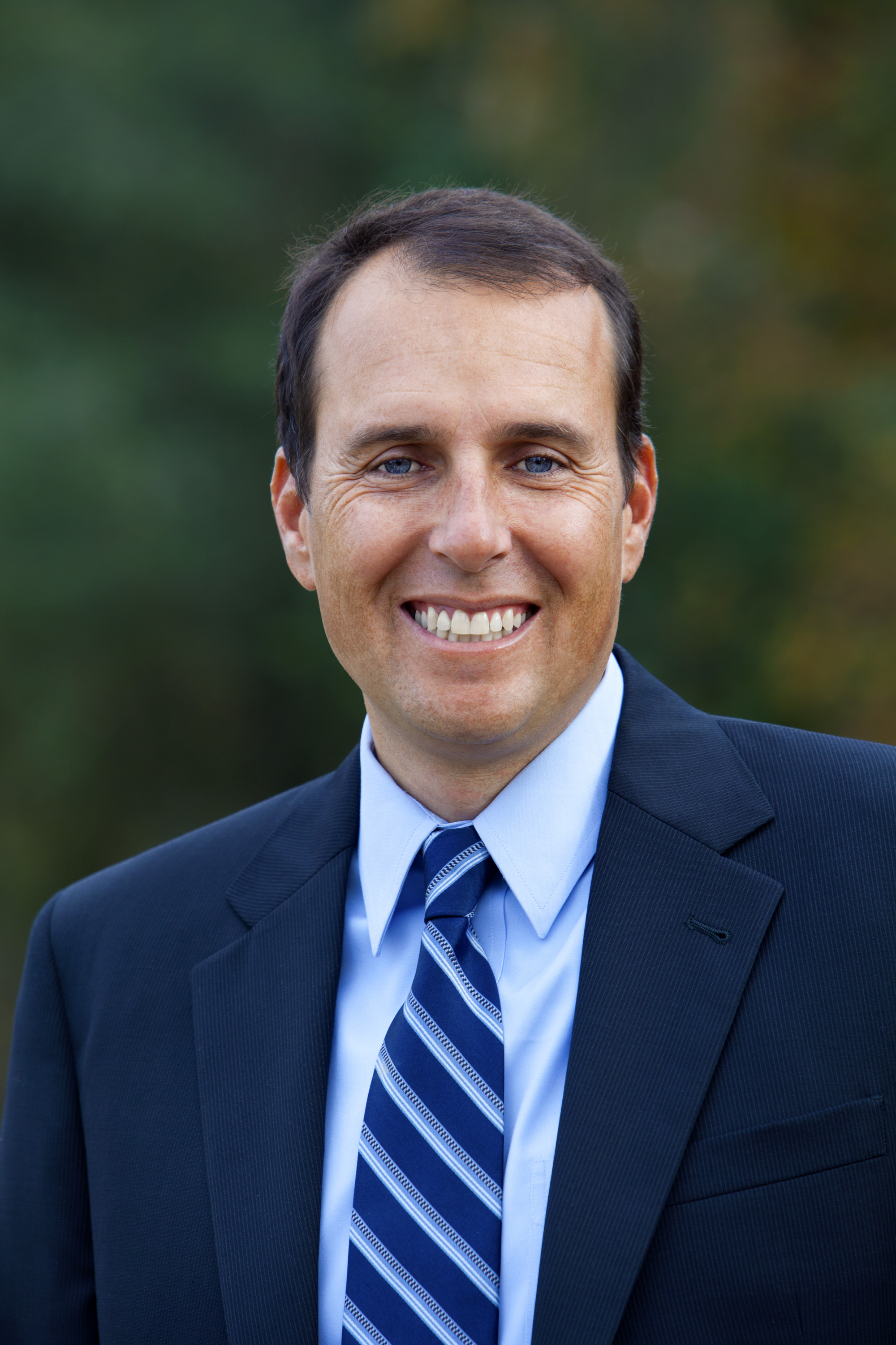 David Cruz Thayne, a candidate for Congress in California's 26th district.